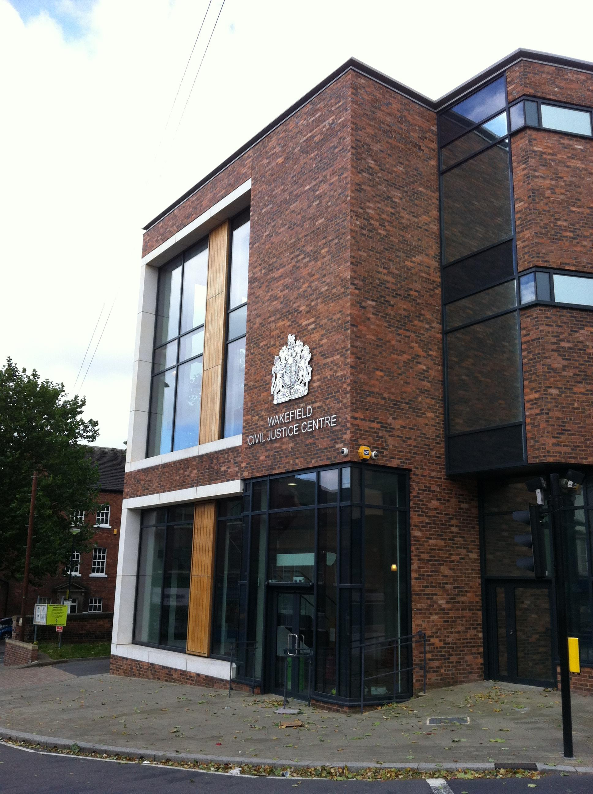 Photograph taken of the new Wakefield Civil Justice Centre, Westgate, Wakefield. This building contains the new Wakefield County Court.